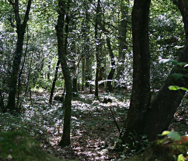 Paramoor Woods. A large area of mixed woodland occupying the northeast section of this grid square.